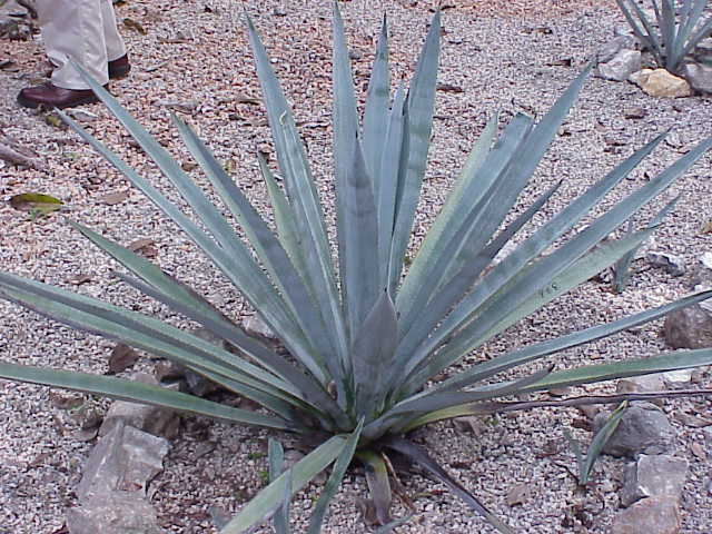 Species: Agave tequilana Family: Agavaceae Image No. 1